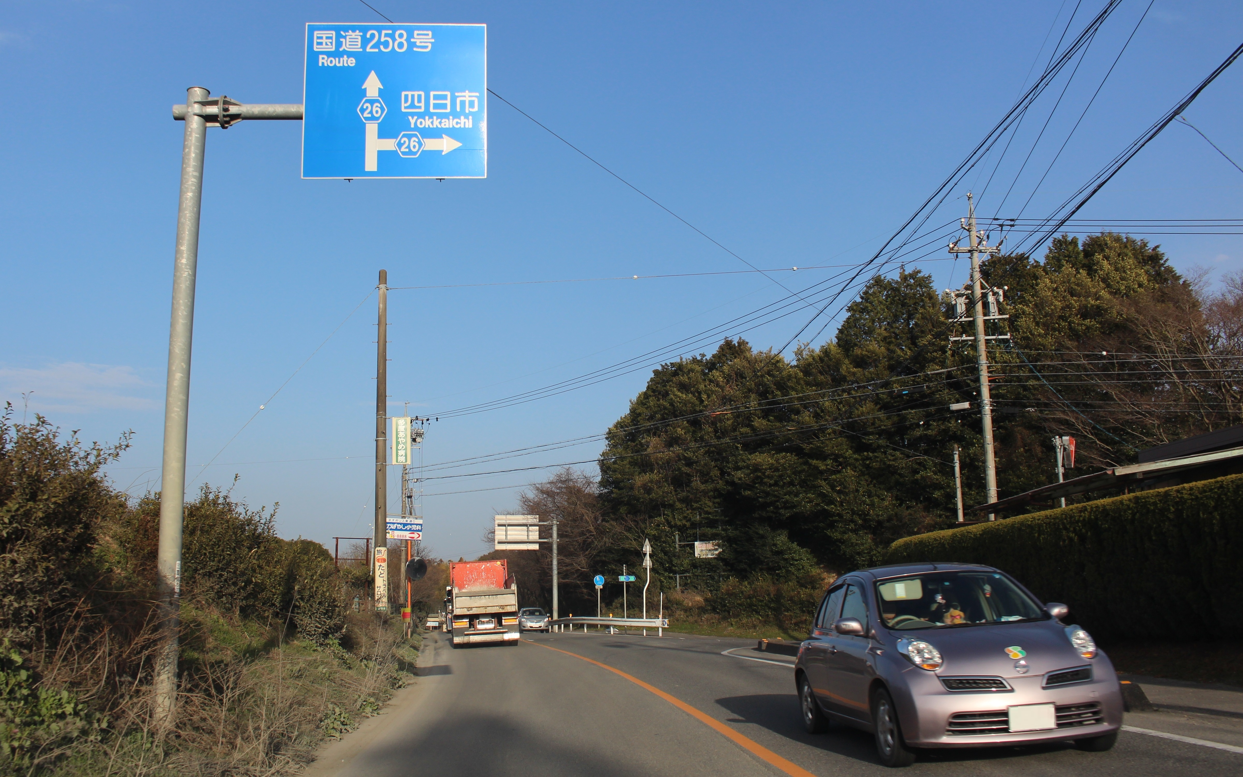 Mie Prefectural Road Route 5 and Mie Prefectural Road Route 26 in Kitaikai, Kuwana, Mie prefcture, Japan.